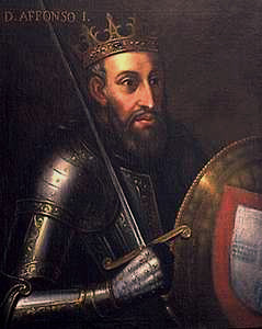 Picture of king Afonso I of Portugal.